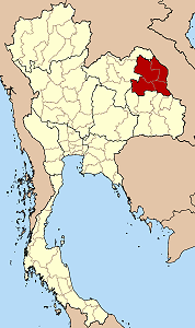 Map of Thailand highlighting the extent of the Roman Catholic archdiocese of Thare and Nonseng.